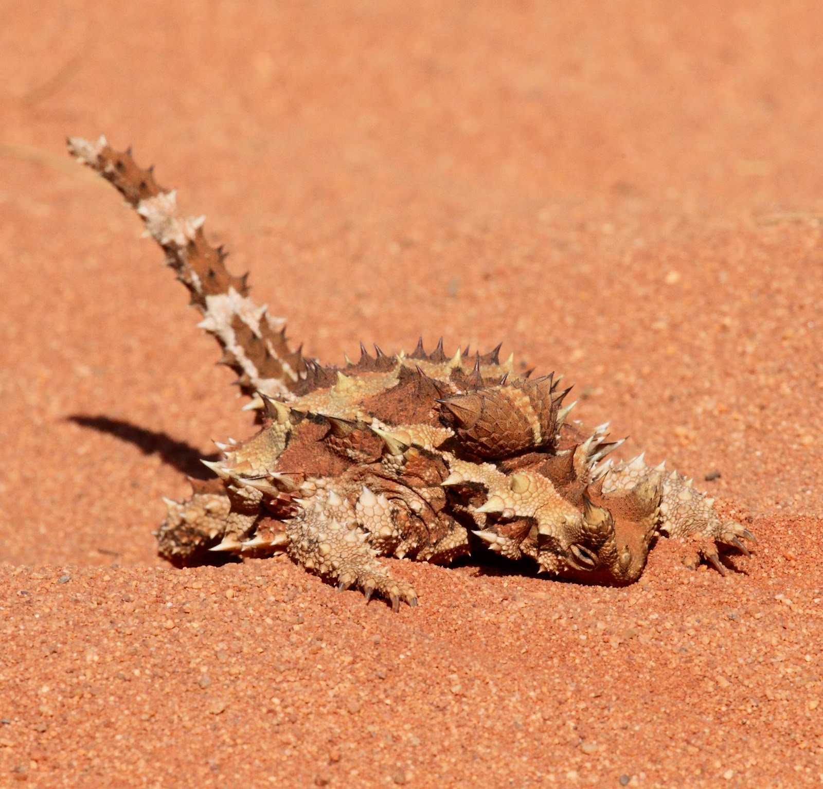 Thorny dragon (Moloch horridus), Northern Territory, Australia